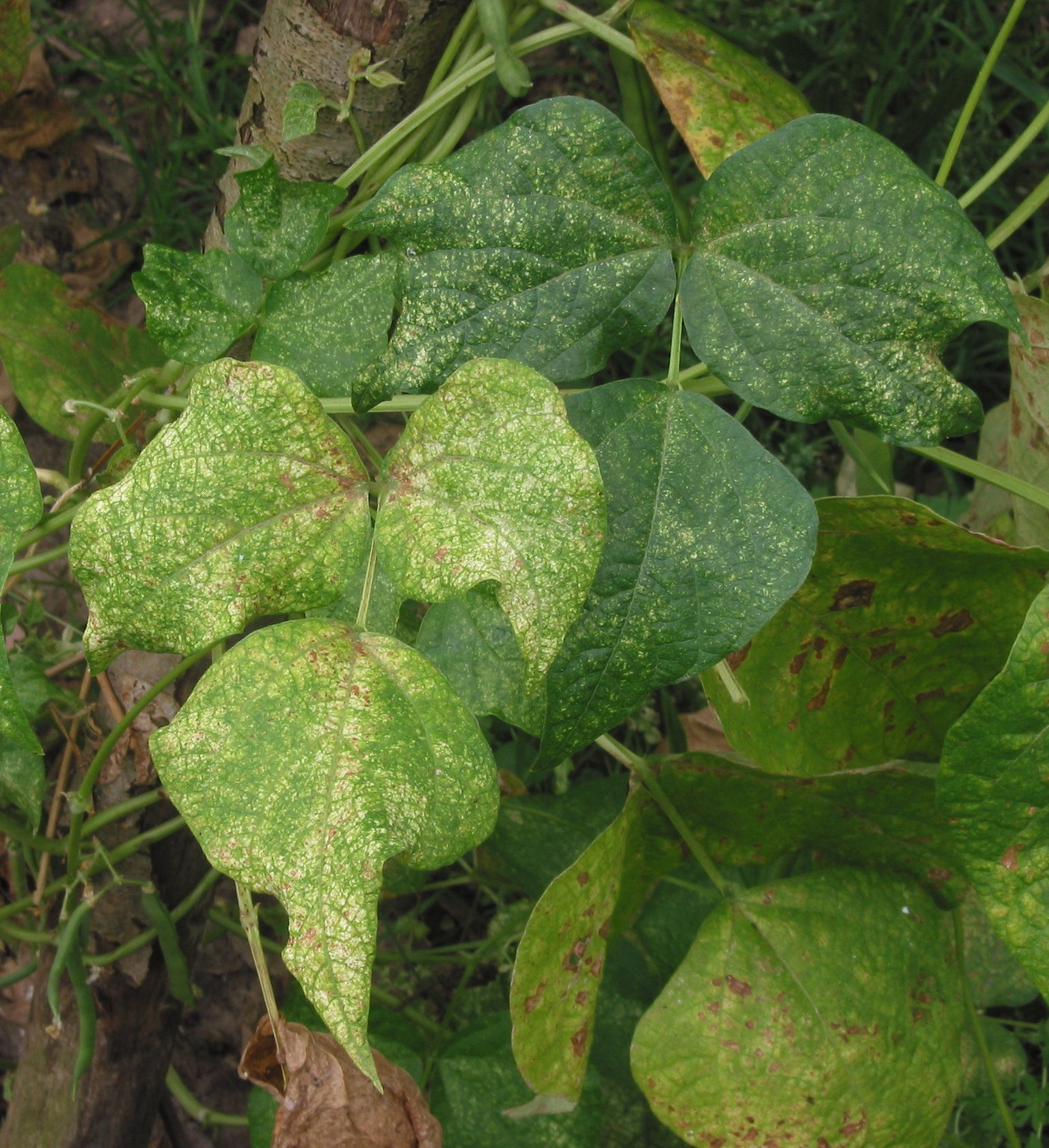 (nl: Stokboon met bonenspintmijt) Phaseolus vulgaris with Tetranychus urticae damage